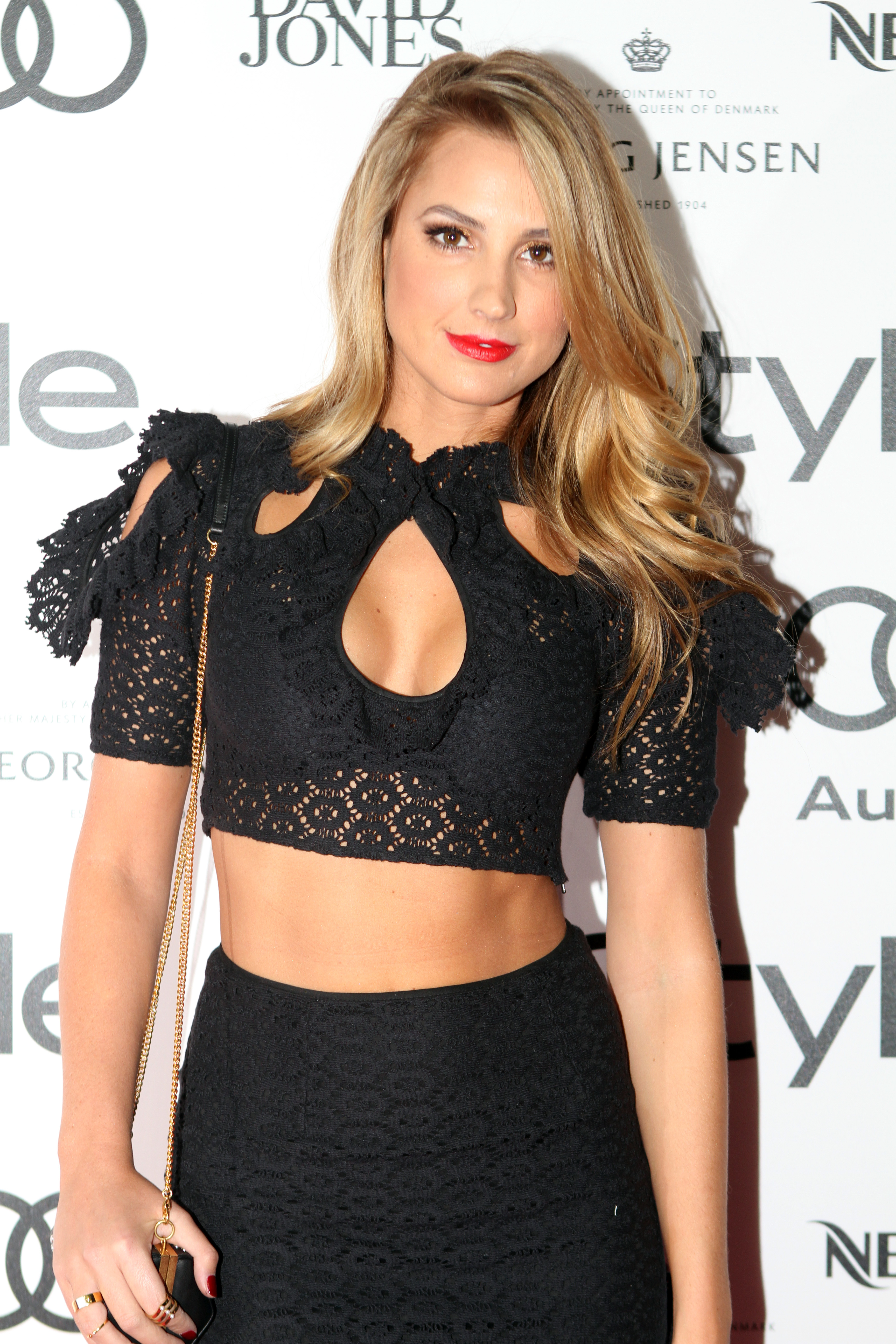 Instyle Awards 2015 InStyle and Audi Host Seventh Annual Woman Of Style Awards Red Carpet Gala Event